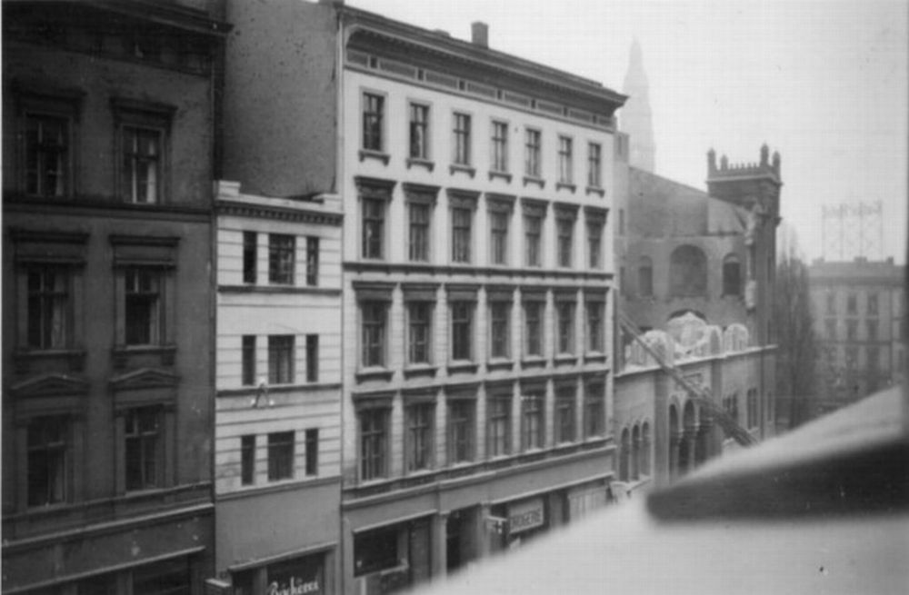 New Synagogue in Szczecin